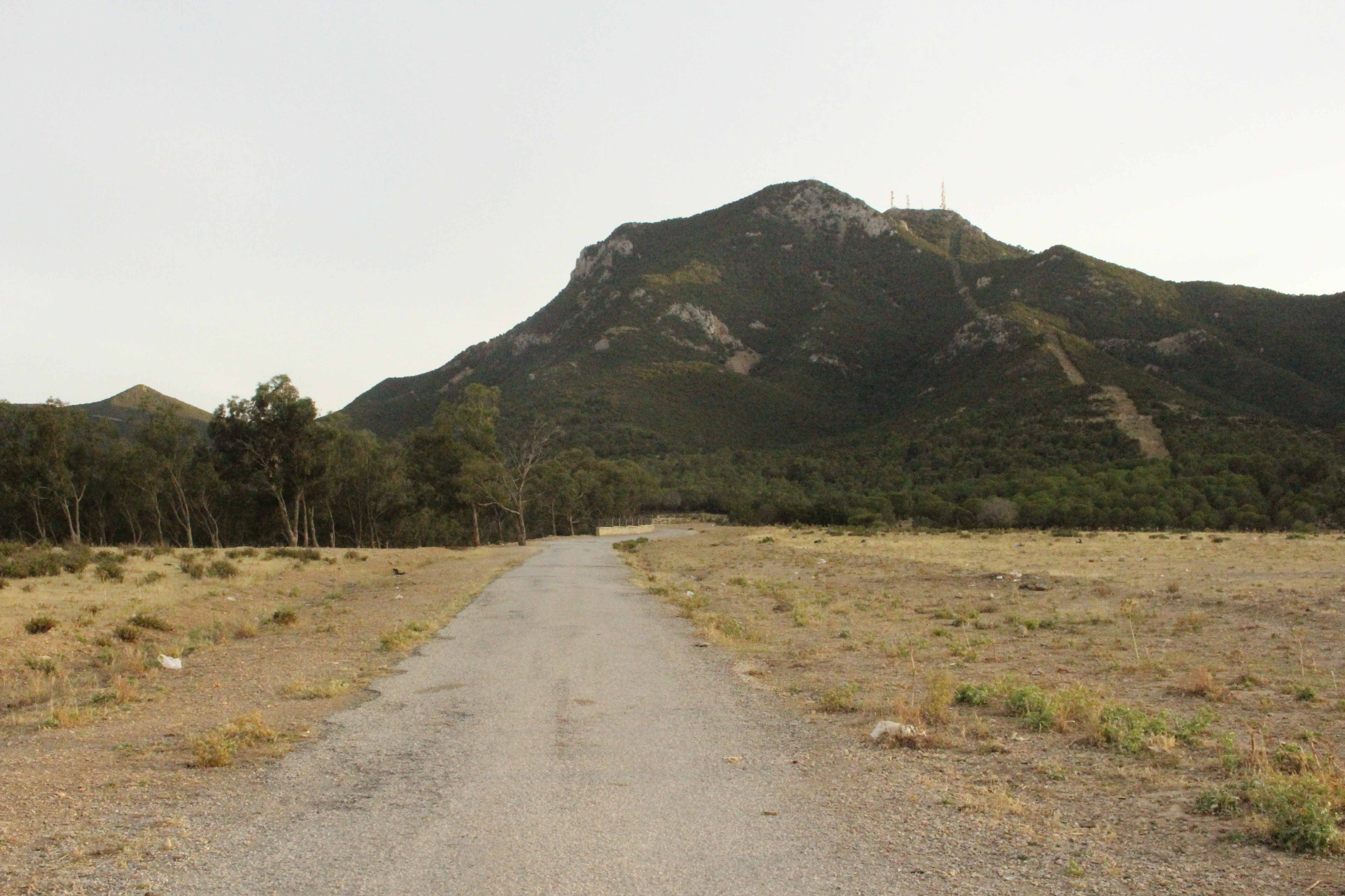 Boukornine National Park